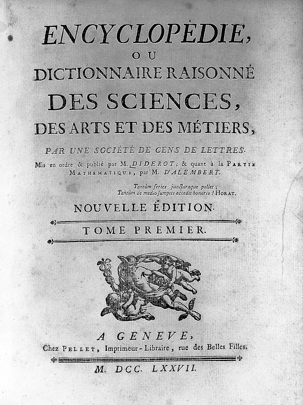 Title page from Diderot and D'Alembert's 'Encyclopedie' Rare Books Keywords: anatomy, 18th century; Denis Diderot; Jean le Rond d'Alembert